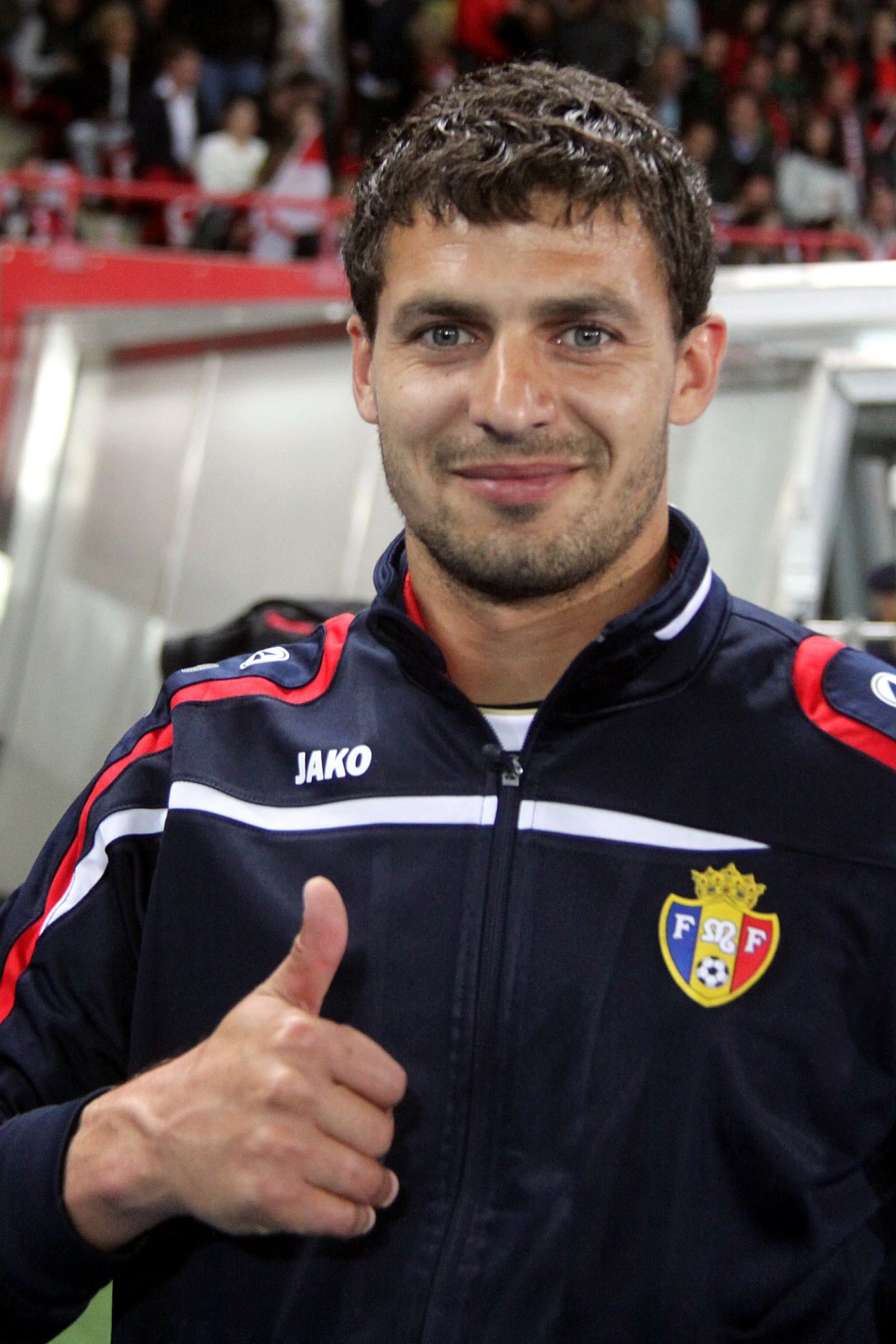 UEFA Euro 2016 qualifying, Group G – Austria national football team (red shirts) vs. Moldova national football team (blue shirts) on 2015-09-05 in Ernst-Happel-Stadion, Vienna: The photo shows Nicolae Calancea